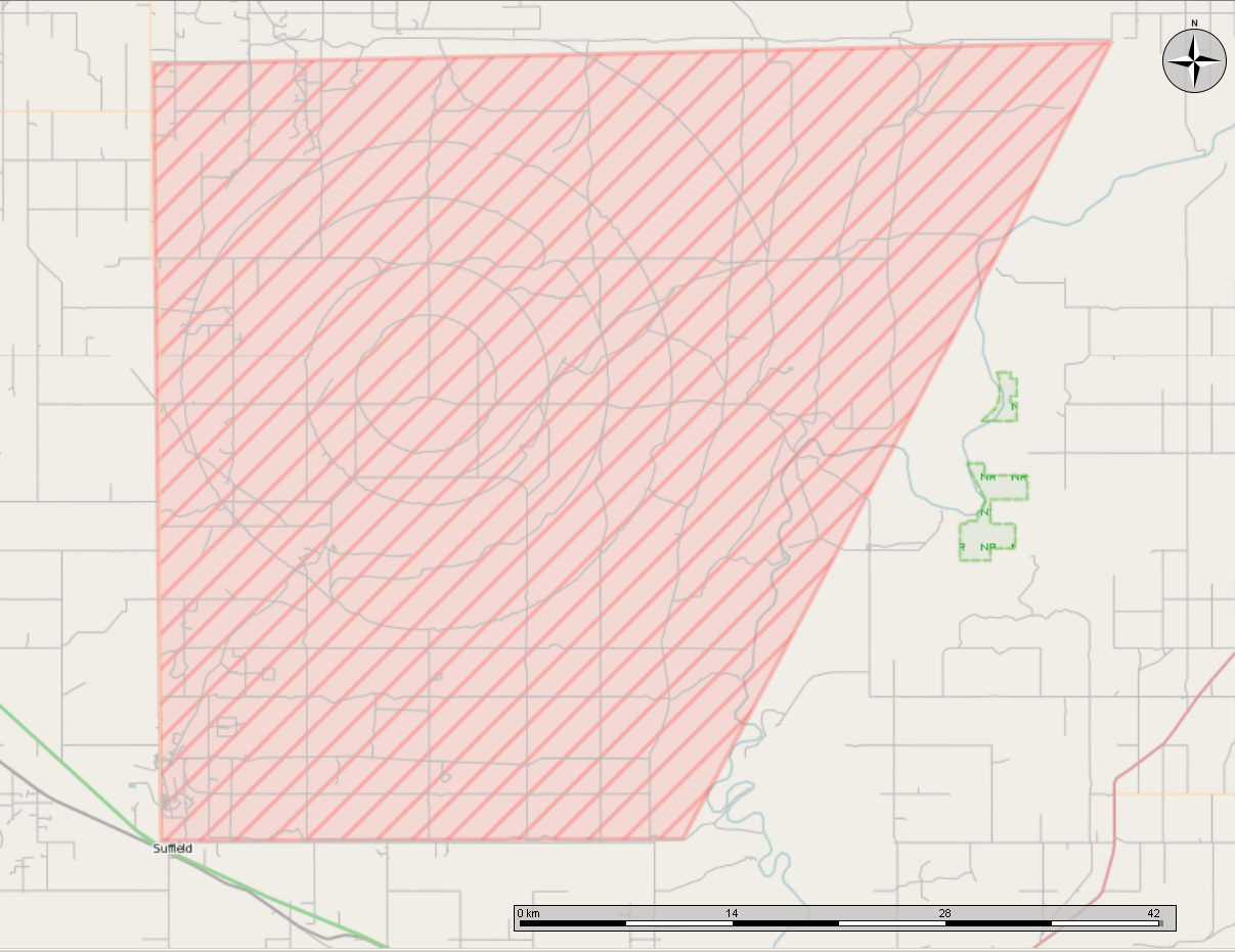 Open Street Map showing CFB Suffield in Alberta. Note the scale bar at the bottom, the upper part of the base is over 40km long. Created in the Marble program, with cropping done in GIMP.